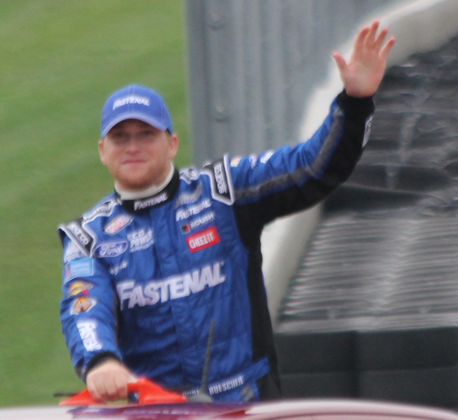 NASCAR driver Chris Buescher waves to the crowd during drivers introduction at the Xfinity Series race at Road America.